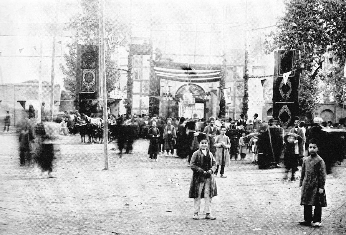 Entrance to the parliament grounds in Tehran, Iran